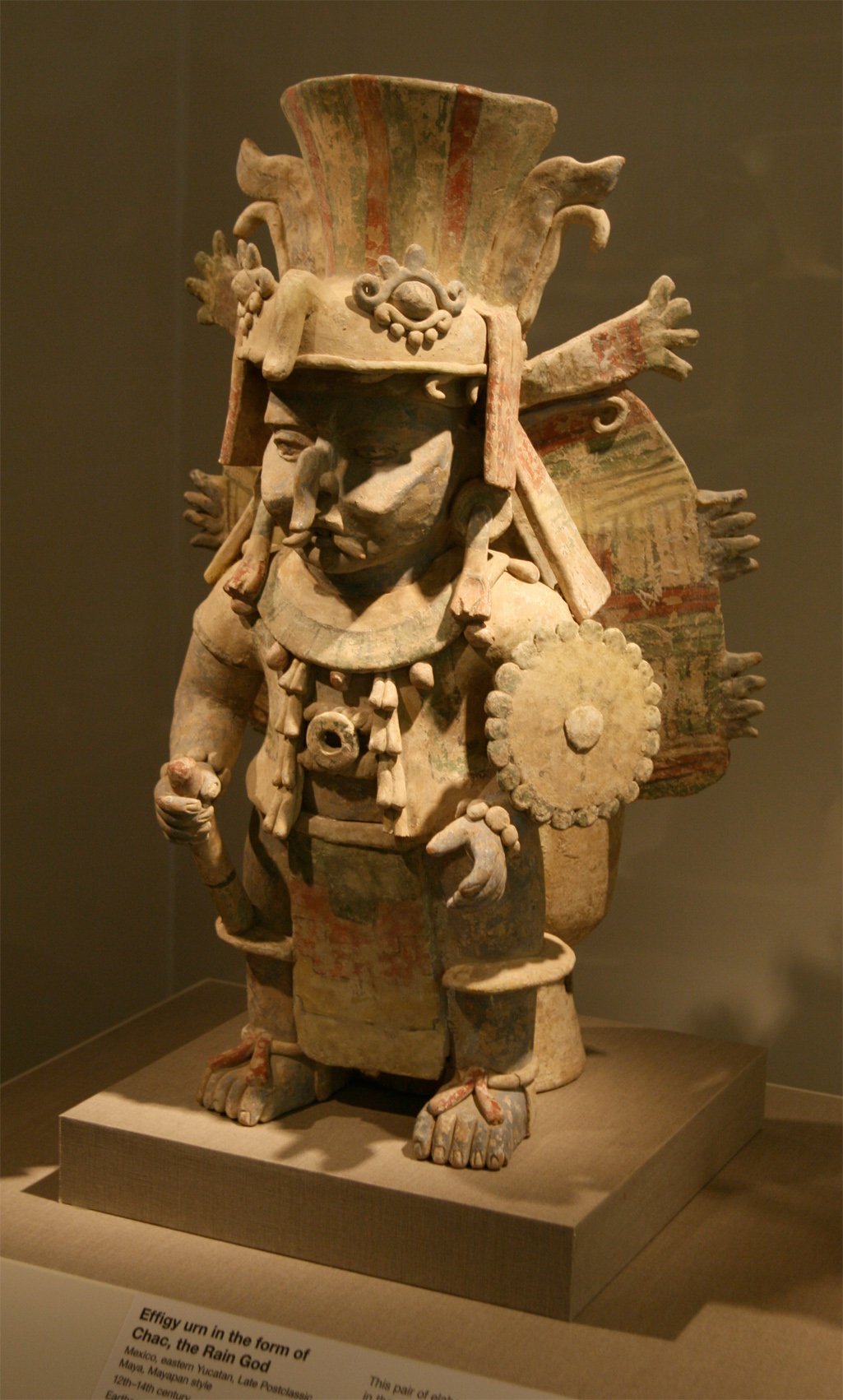 Terra cotta image of Maya Rain God Chac at San Francisco's deYoung museum, nonflash image permitted